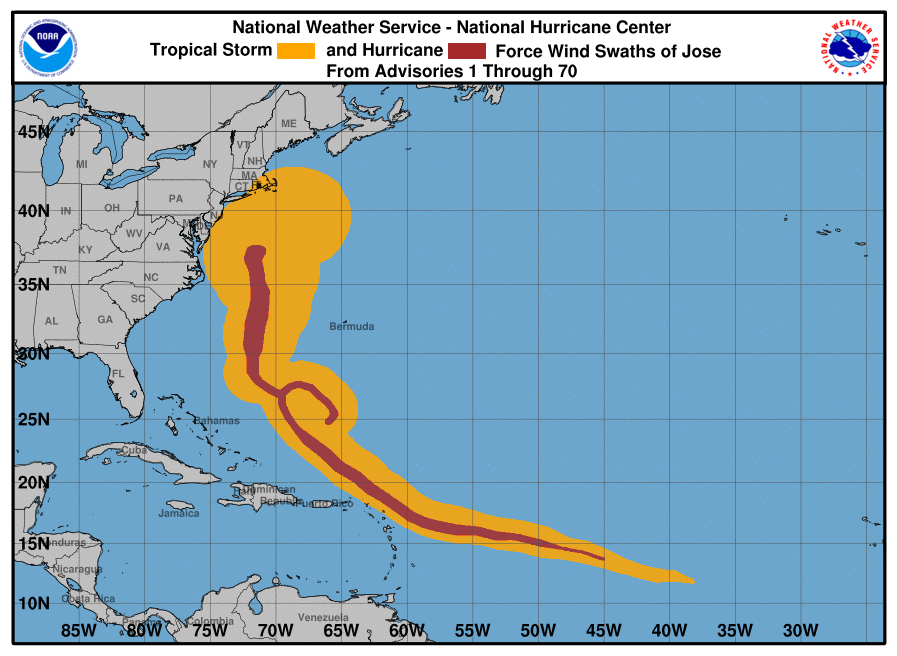 This graphic shows the sustained winds of tropical storm force (in orange) and hurricane force (in red) associated with the track of Hurricane Jose in 2017.